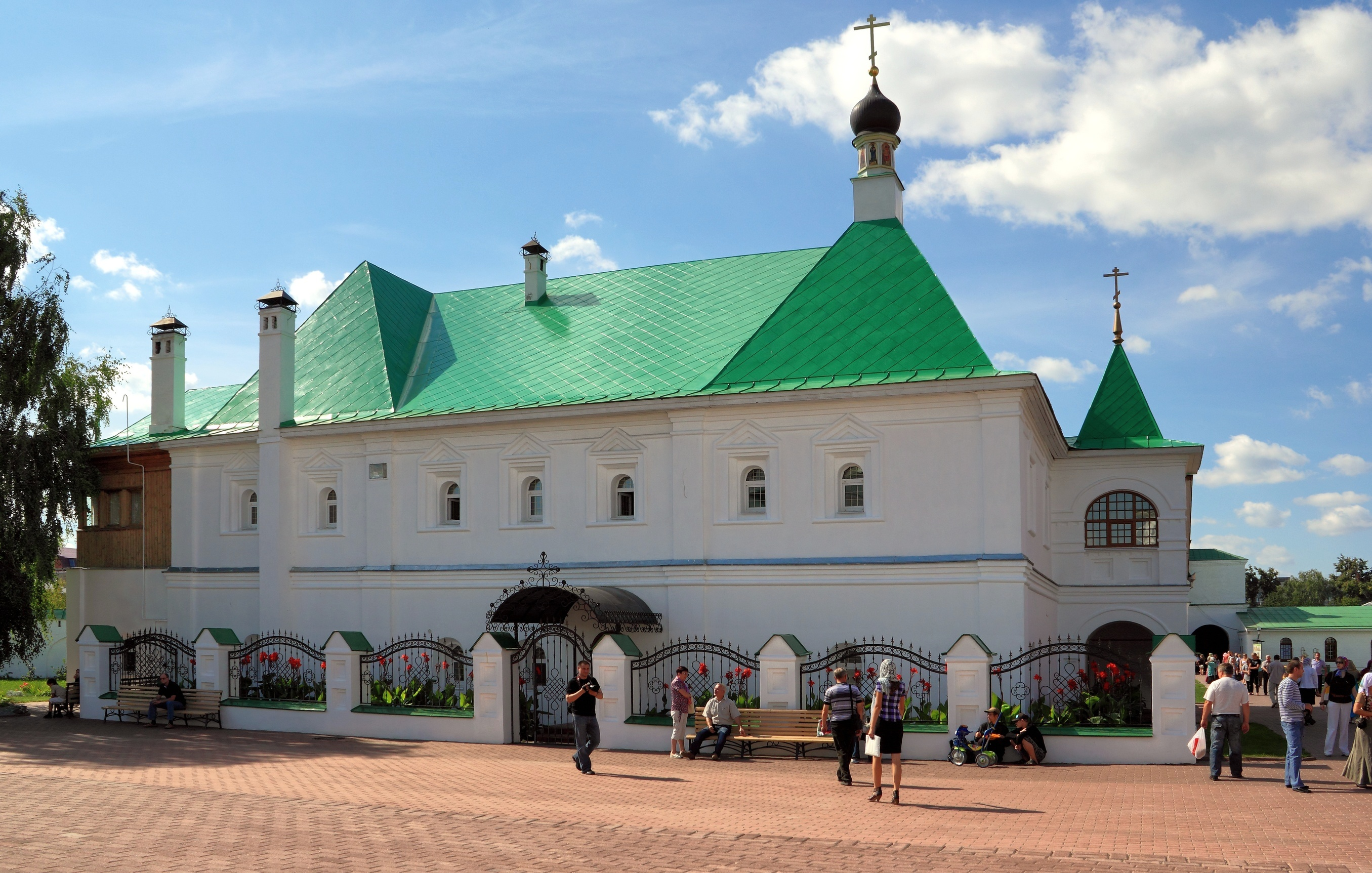 Murom. Transfiguration monastery. The abbot's house